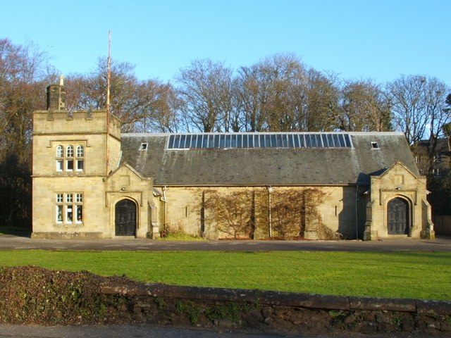 Geilston Halls Built from 1889-90 (Honeyman and Keppie), this building is used for various community functions. It is viewed here from Main Road.